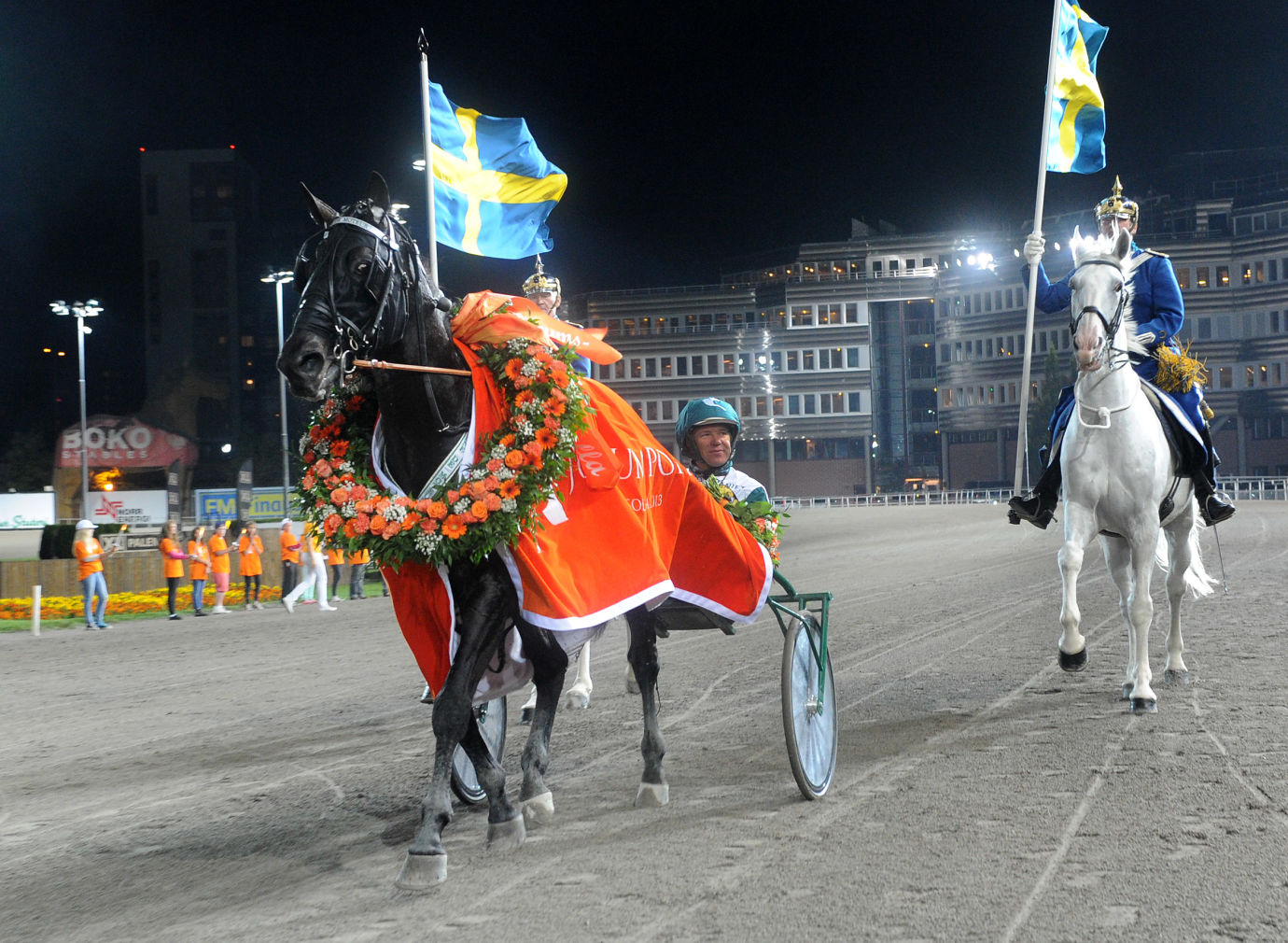 Swedish trotter Panne de Moteur and Örjan Kihlström after winning Jubileumspokalen, Solvalla